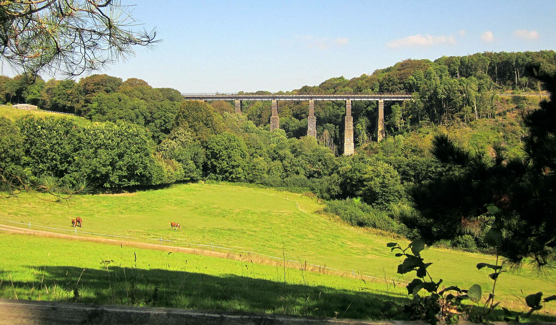 Field and viaduct near Menheniot